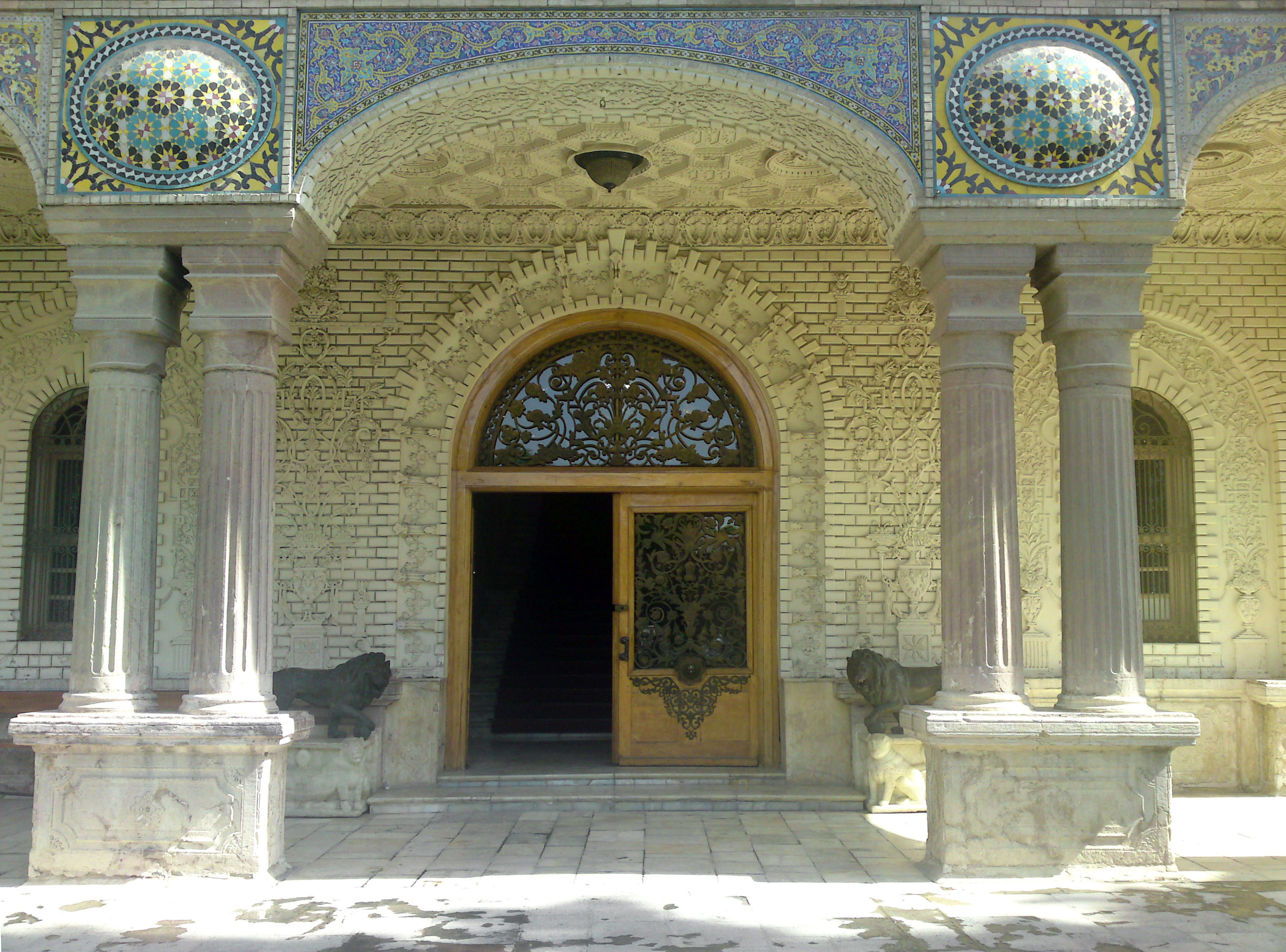 Entrance Hall porch-salam — Golestan Palace.